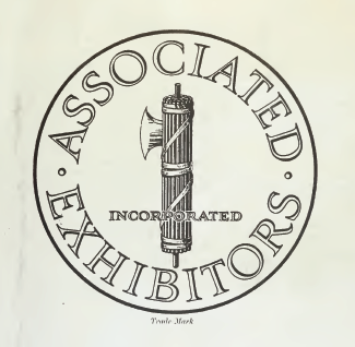 Associated Exhibitors Film Daily 1920